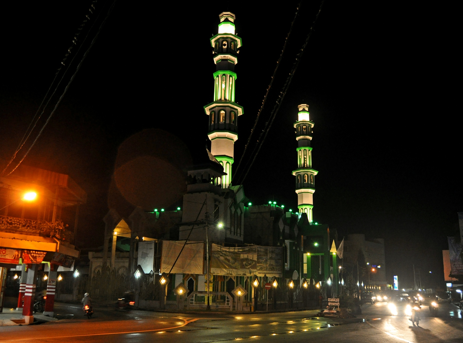 Singkawang city mosque, night view.